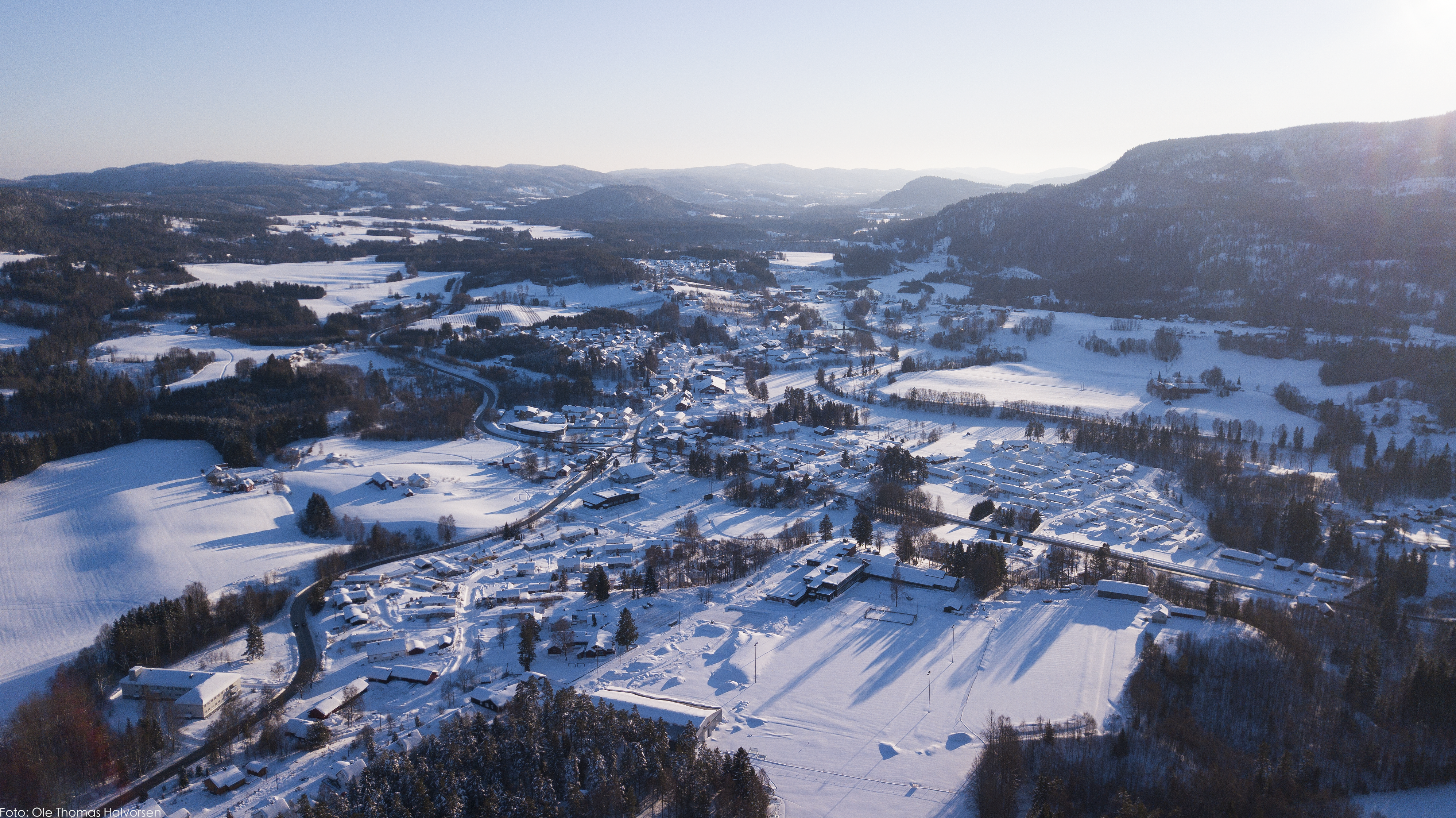 Hvittingfoss 2019